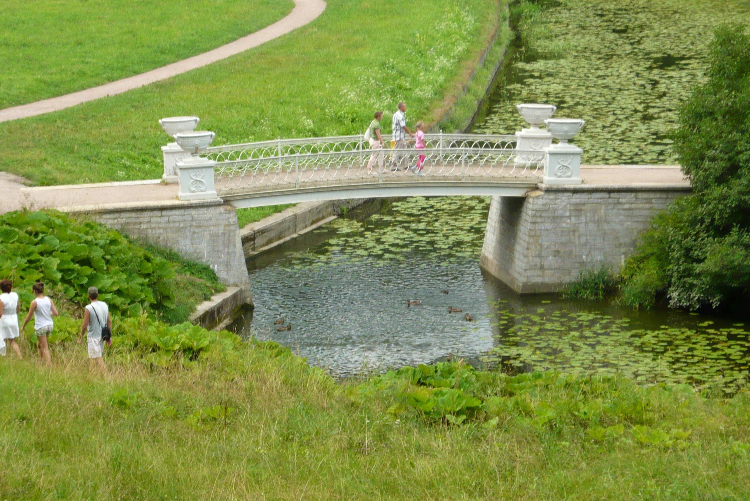 Cast-iron Bridge over Slavianka River in Pavlovsk park, aint Petersbyrg, Russia